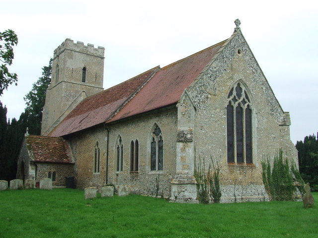 The Church of St Peter in Fakenham Magna, Suffolk, England. A Grade I listed medieval church.